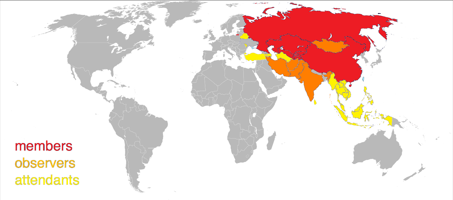 Map of the Shanghai Cooperation Organization. Red: Member states. Orange: Observer status. Yellow: Attendants status.